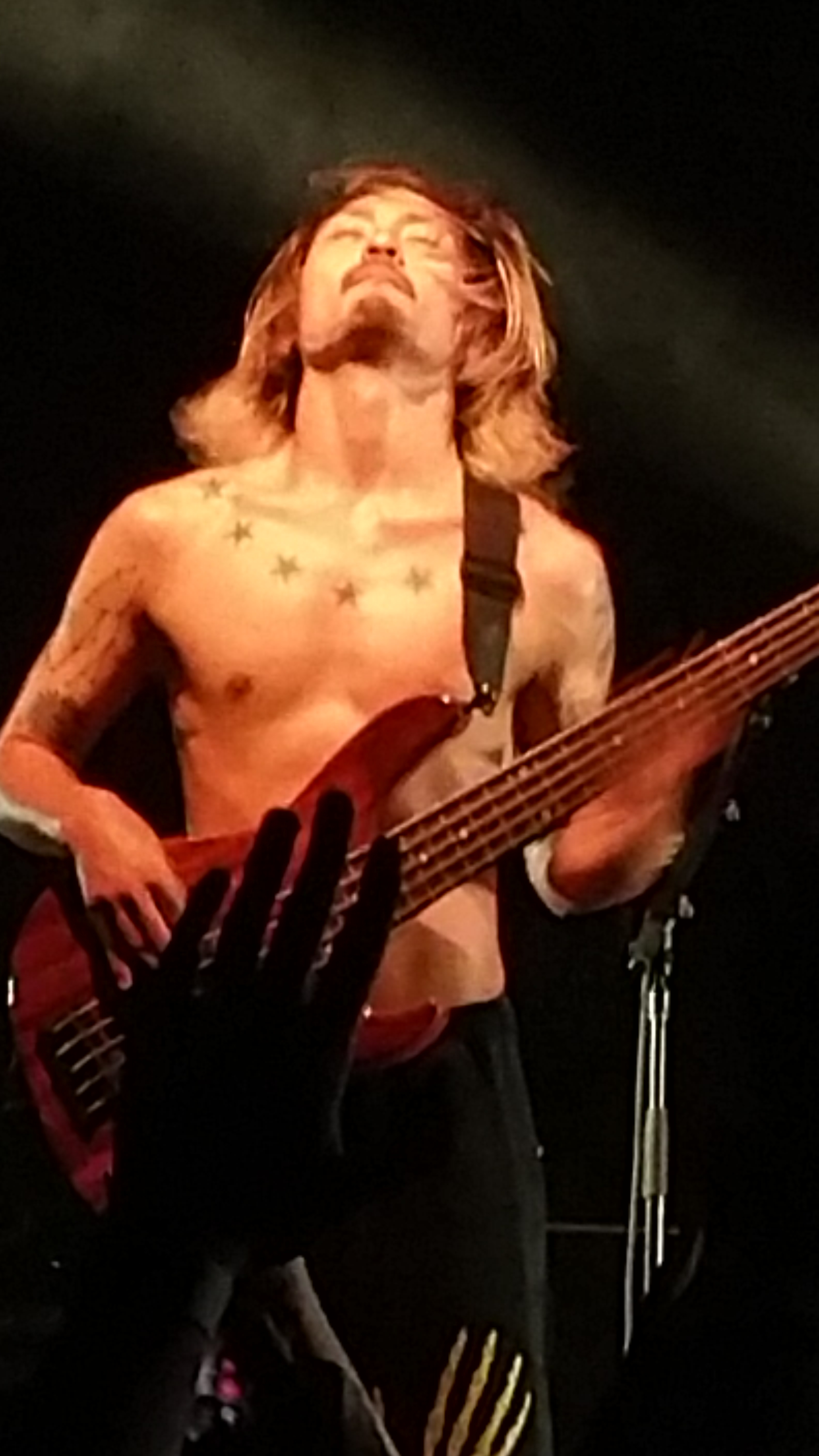 One Ok Rock bass guitarist Ryota Kohama, Ambitions Tour 2017, Playstation Theater, New York City, Day 2.